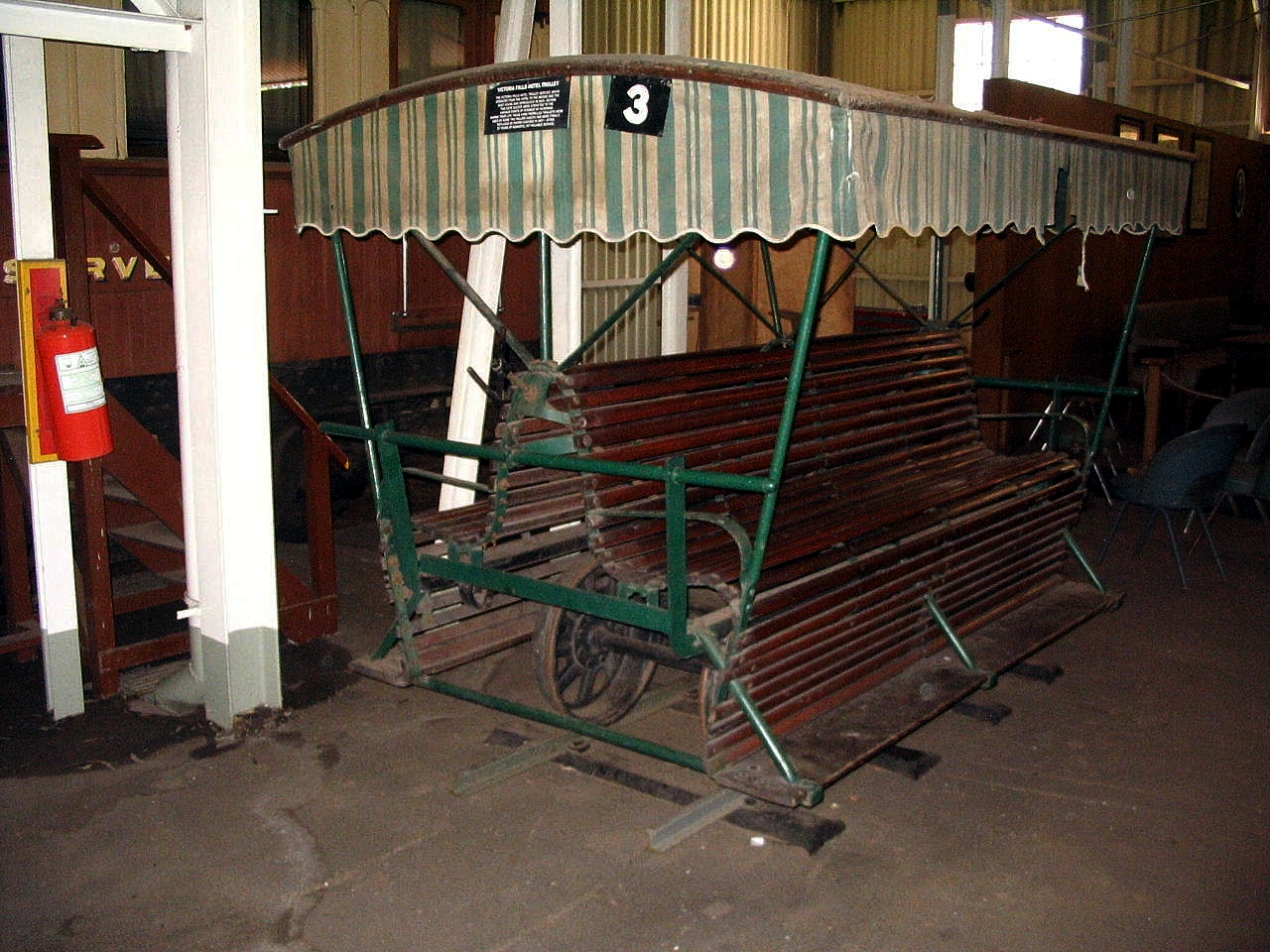 Victoria Falls Hotel Trolley